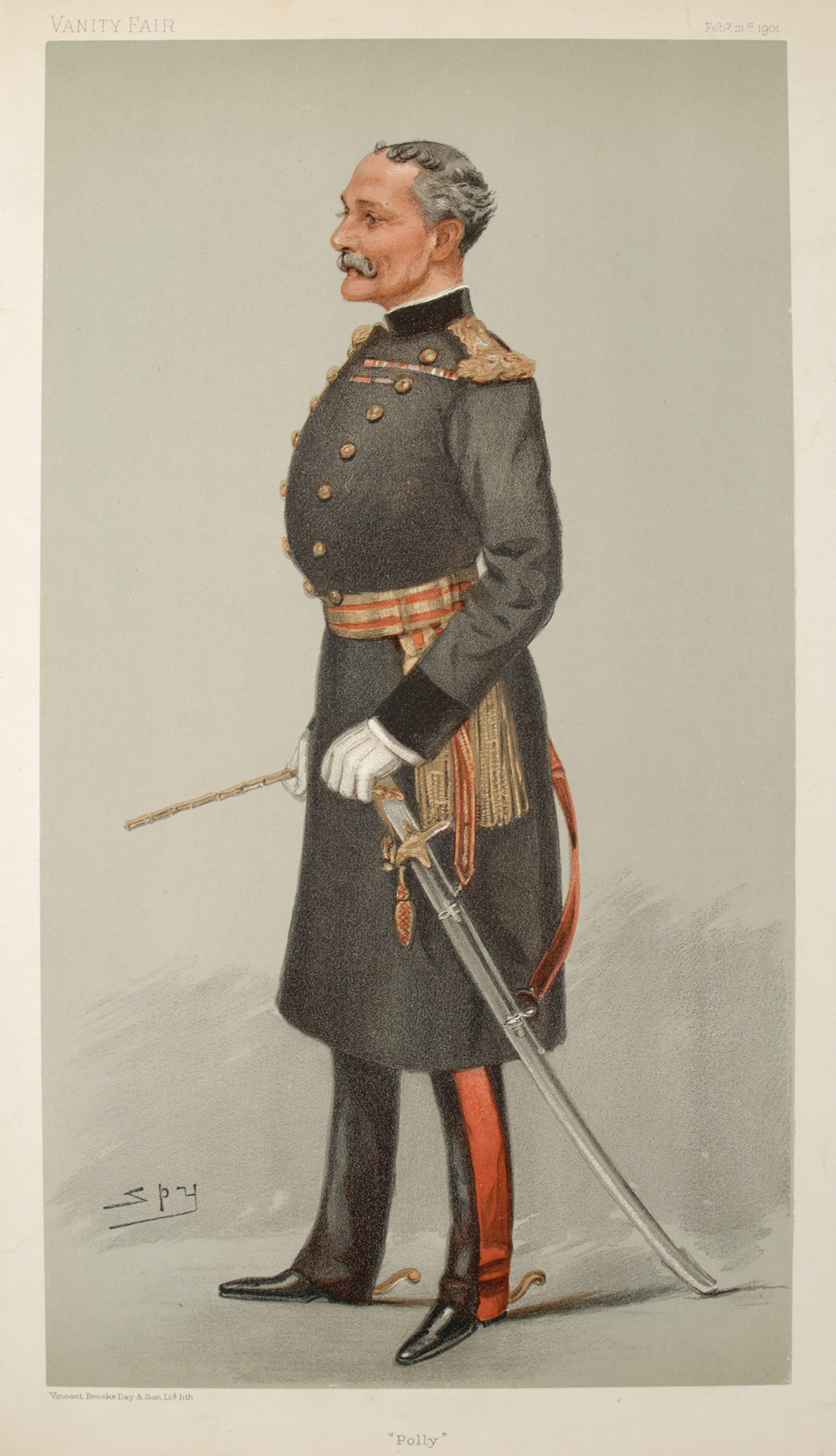 Men of the Day No. 802: Caricature of Lieutenant-General Reginald Pole-Carew (1849-1924). Later served as Liberal Unionist MP for Bodmin 1910-1916. Caption read "Polly".